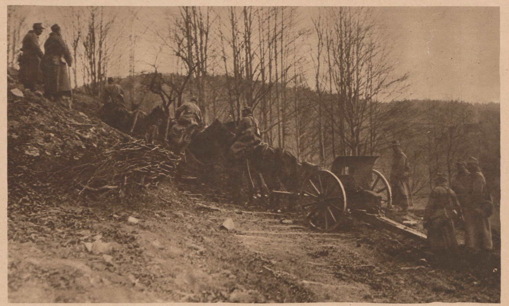 Romanian artillery troops in a mountain region, 1916